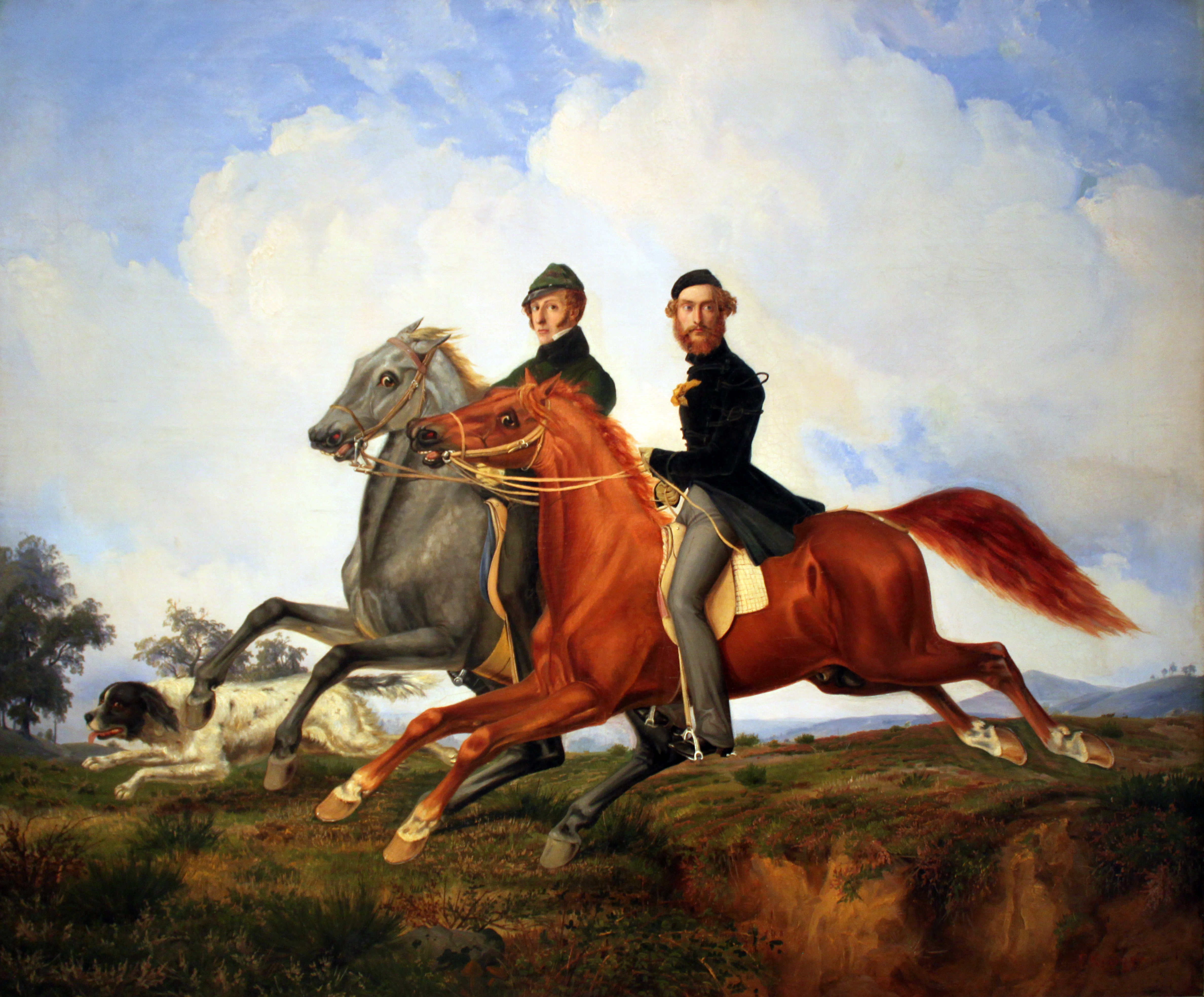 Two horsemen galloping